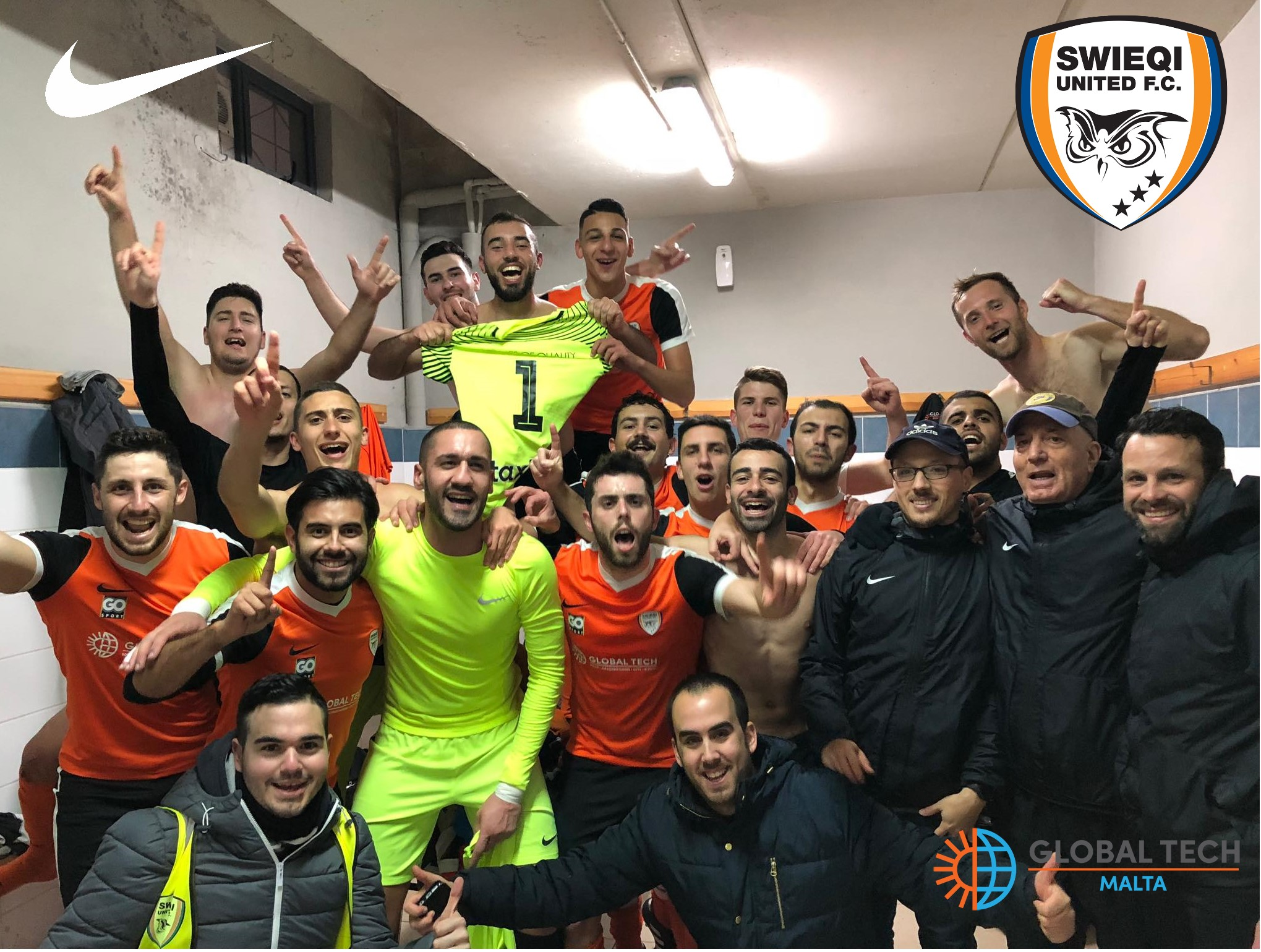 The Seniors team celebrate a positive result after a match against Siggiewi FC.